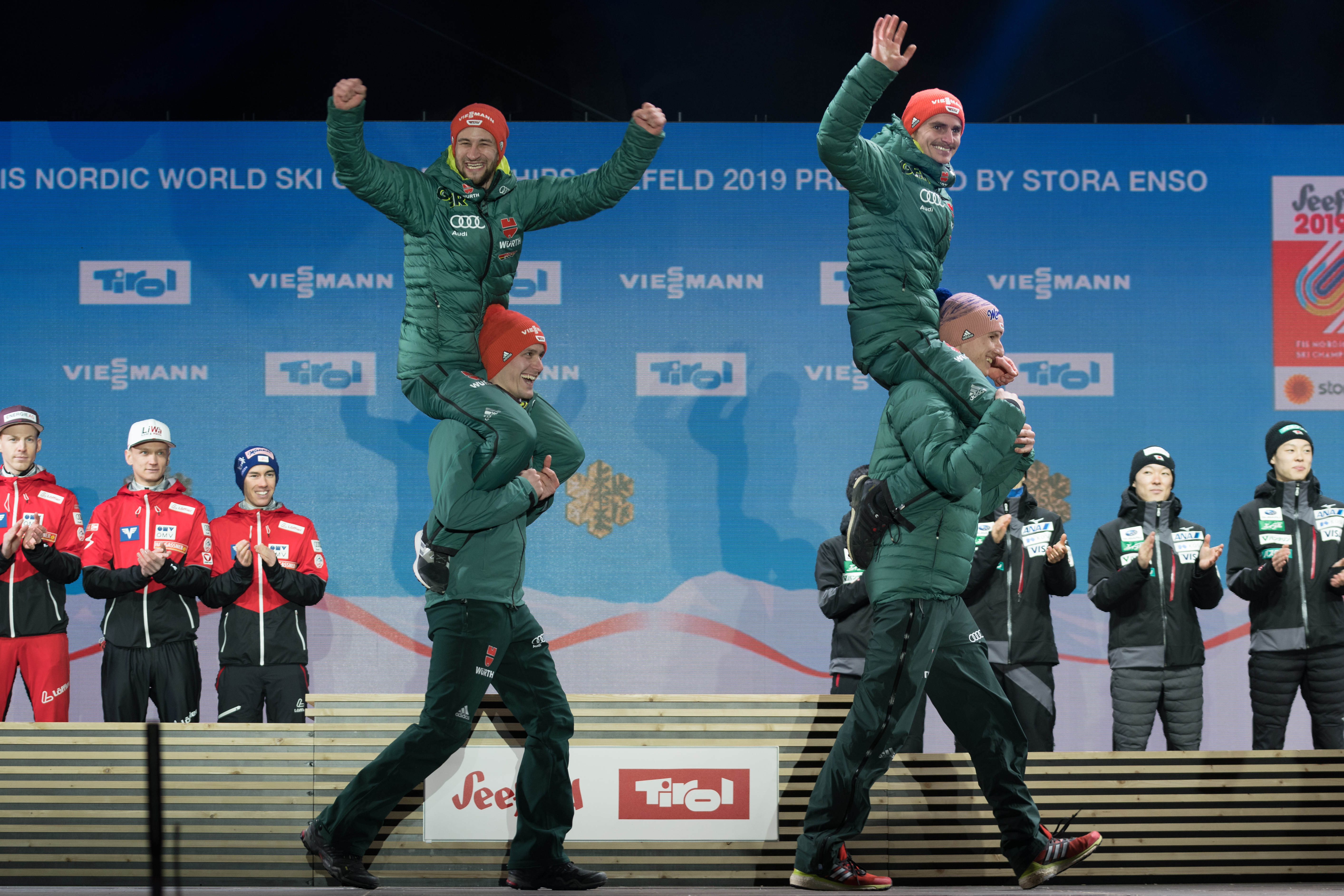 FIS Nordic Wolrd Championships Seefeld 2019 - Medal Ceremony at the Medal Plaza. Picture shows Team Germany having fun marching in for the medal ceremony.